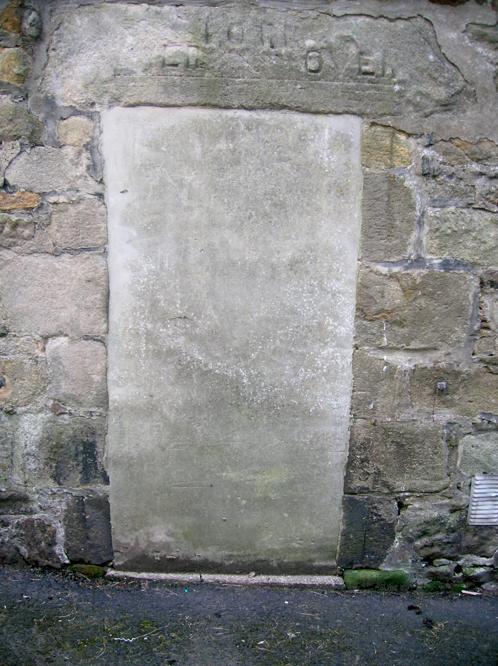 The old main entrance to the Buck's Head Inn, Buck's Head Close, Stewarton, East Ayrshire, Scotland. Doorway with inscription 'Over Fork Over'.